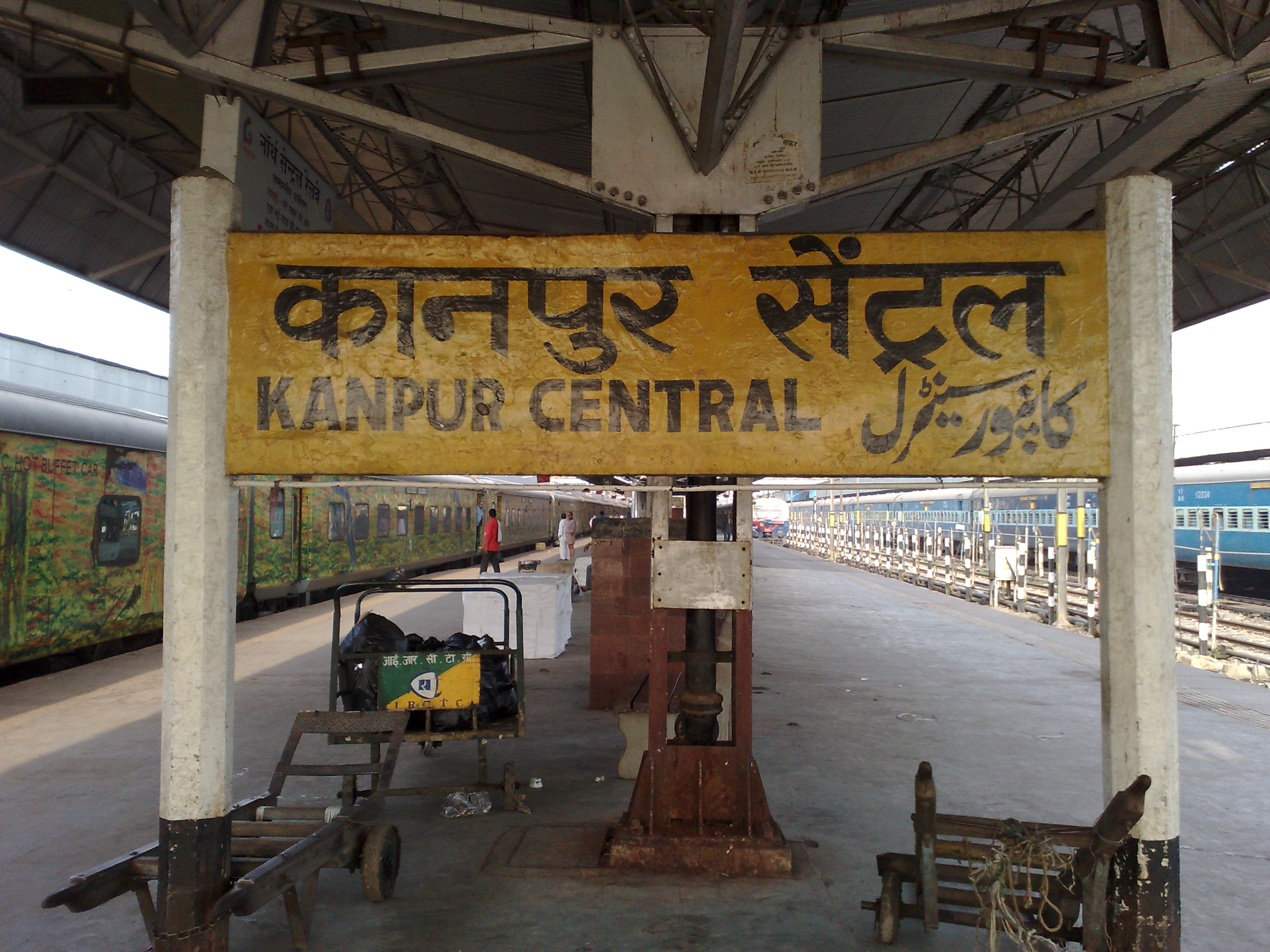 Kanpur Central stationboard